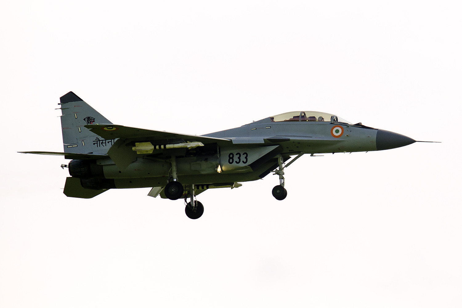 Indian Navy Mikoyan-Gurevich MiG-29K at Ramenskoye Airport